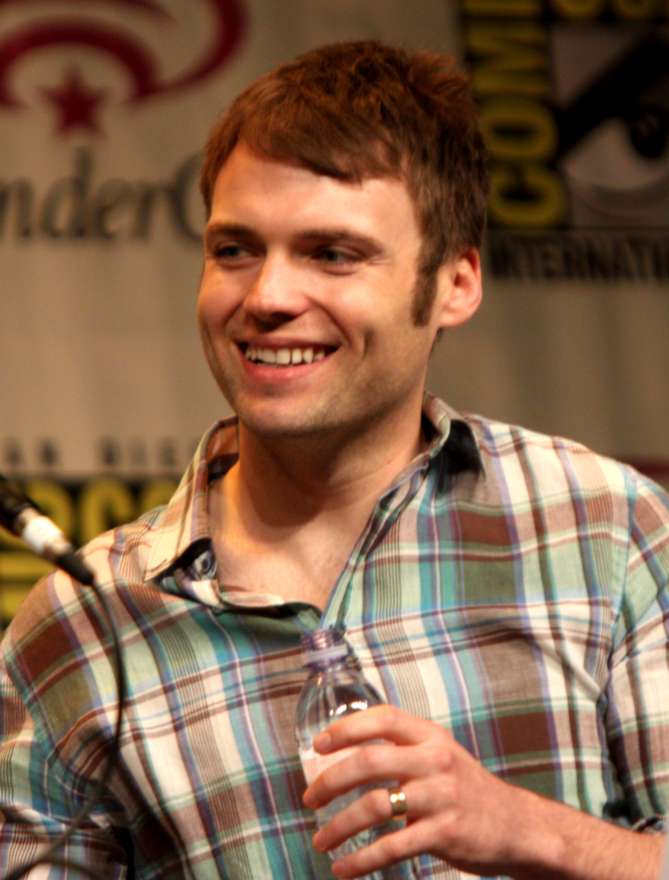 Seth Gabel speaking at Wondercon 2012 in Anaheim, California on March 18, 2012.